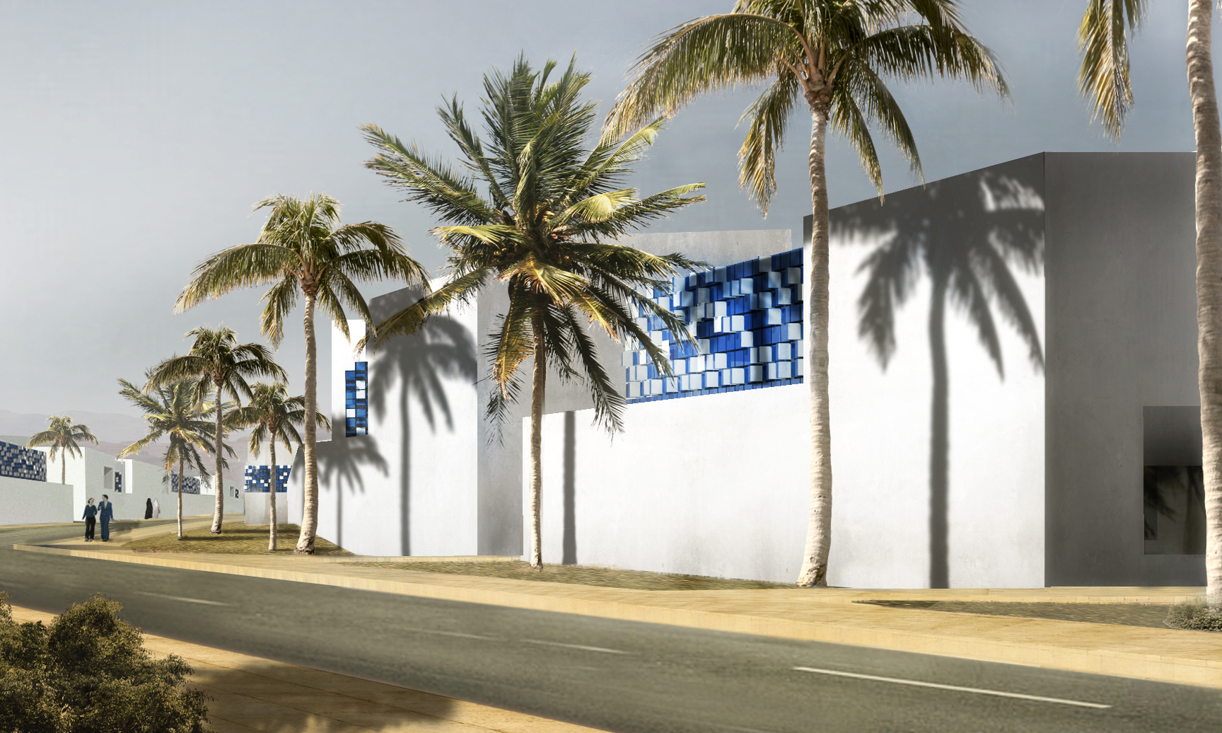 Al Dhakira-city-Qatar